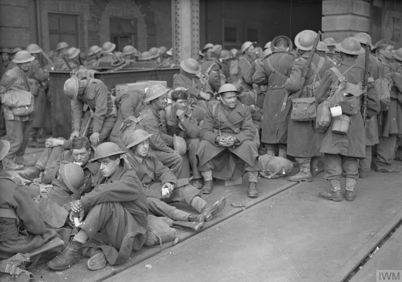 The Evacuation From Dunkirk, May - June 1940 Troops arrive back in Dover following the evacuation of British troops from Dunkirk on 31 May 1940. Some men change into clothes provided by the authorities.